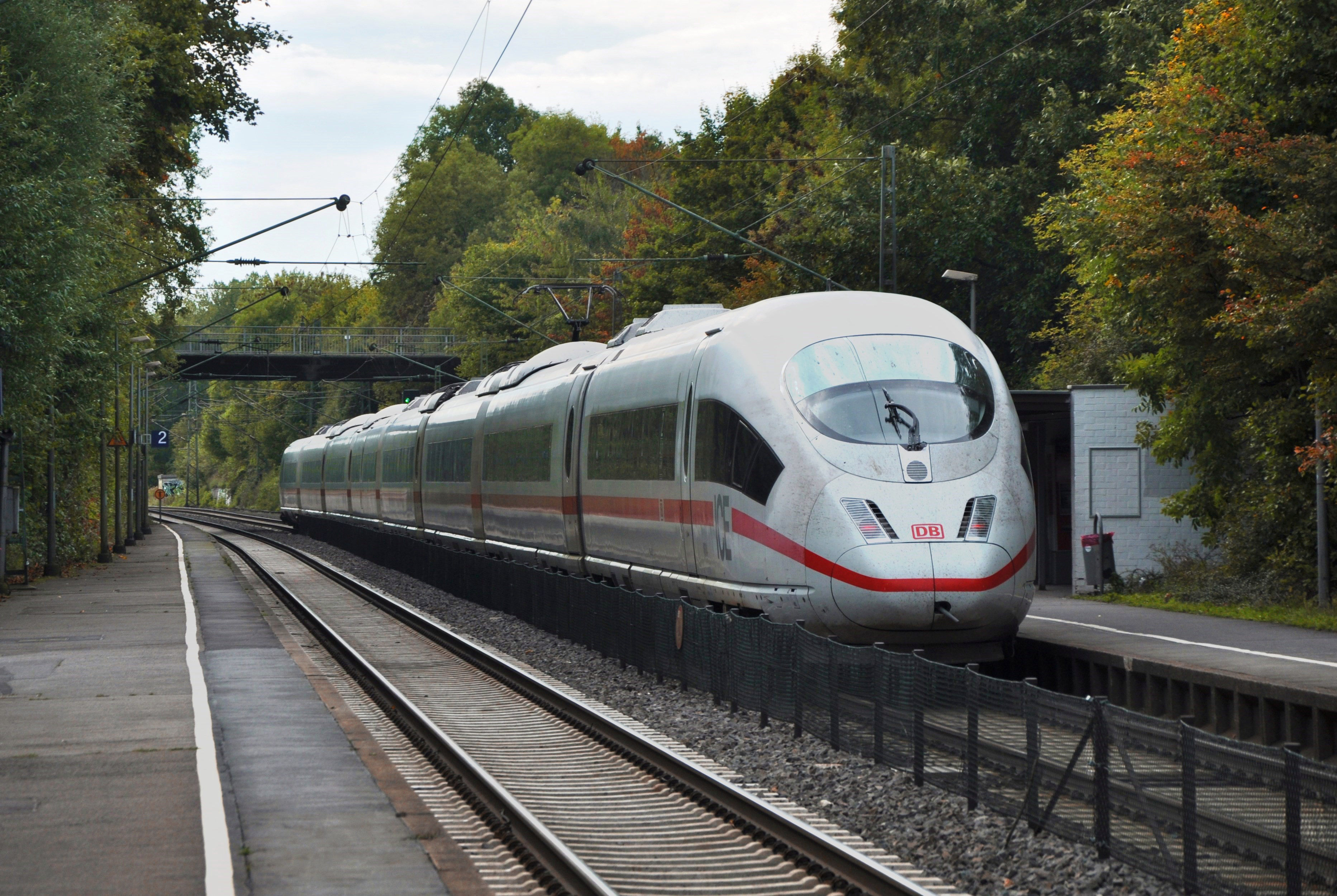 ICE International from Frankfurt to Bruxelles passes Eilendorf next to Aachen. (October 2013)